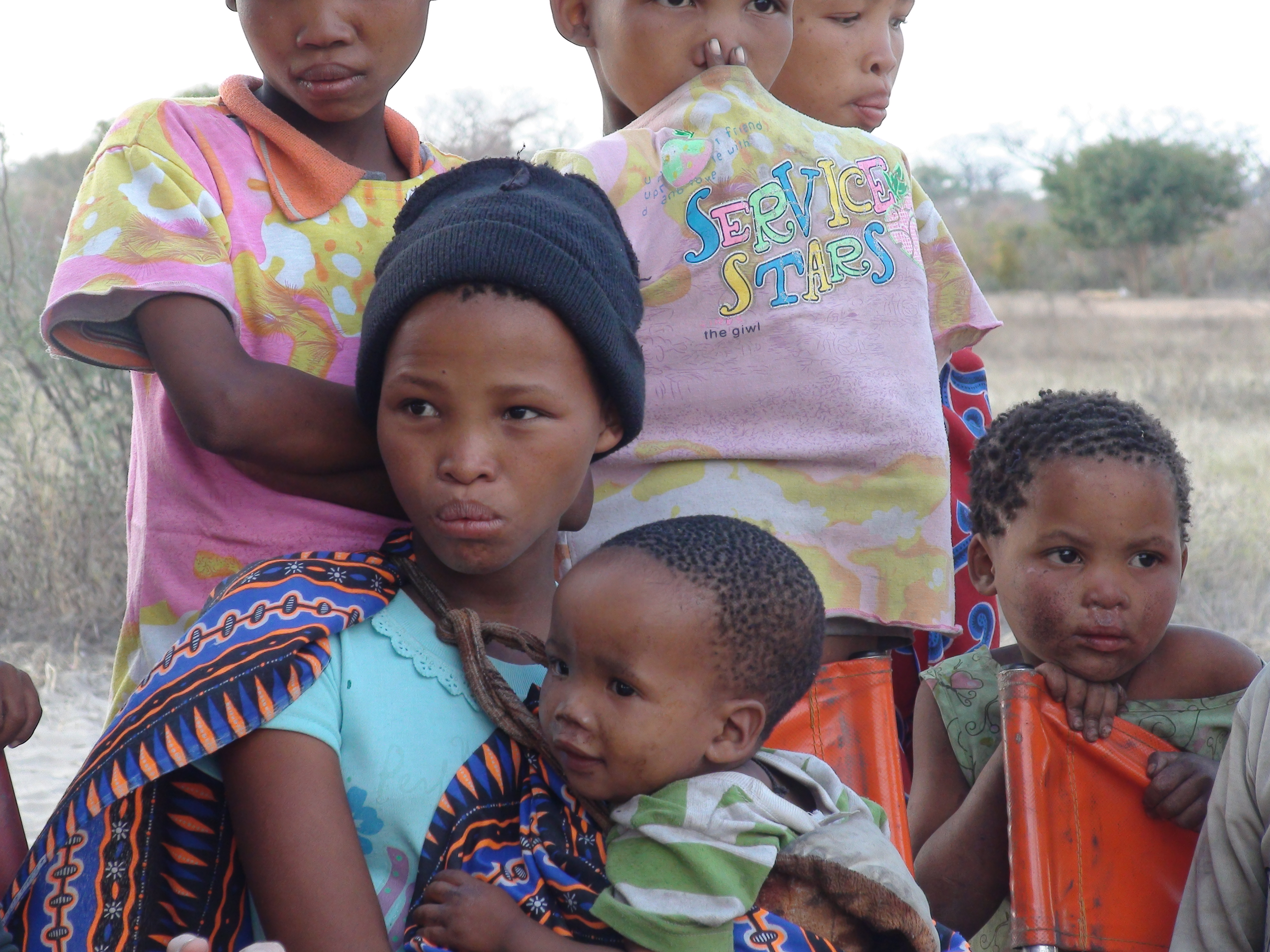 The daughters of a small community of bushmen living in Namibia. The baby boy is the girl's brother.